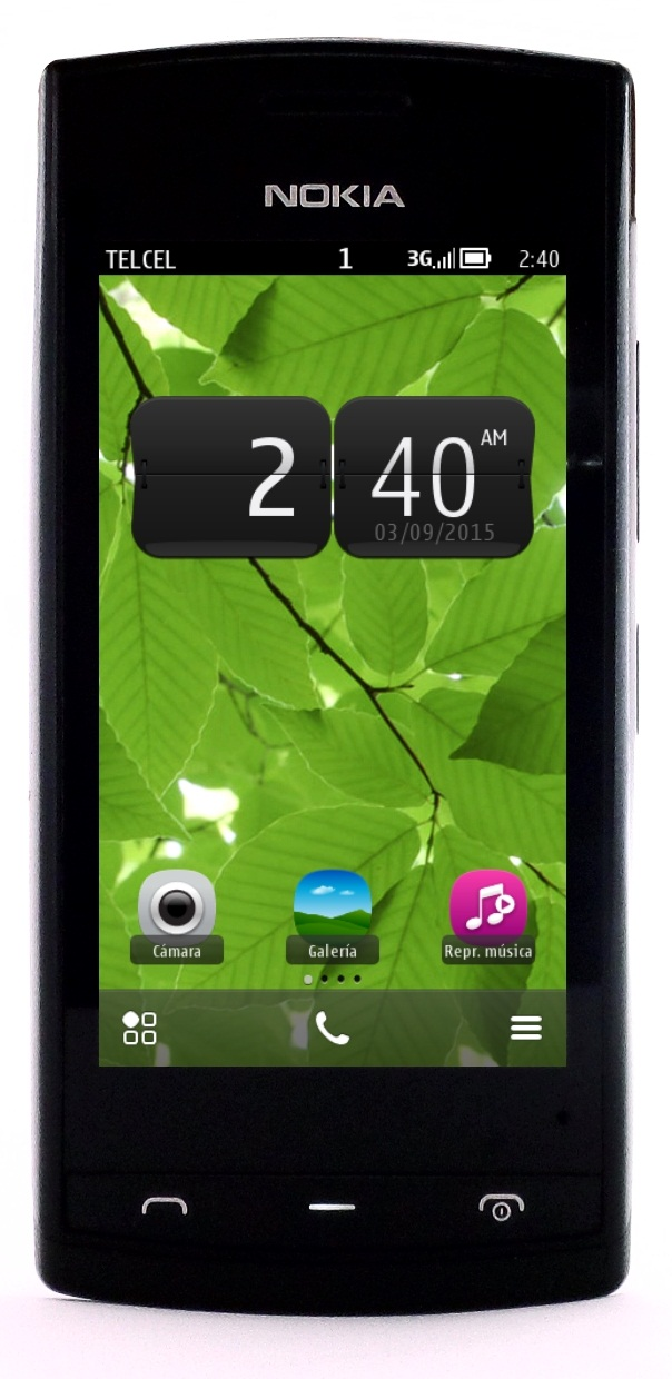 Cell phone Nokia 500